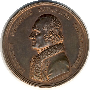 Hungarian bronze medal (1813), showing the historian Martin G. Kovachich - Frontside, Diameter: 44mm (Catalog: Wurzbach 4725)